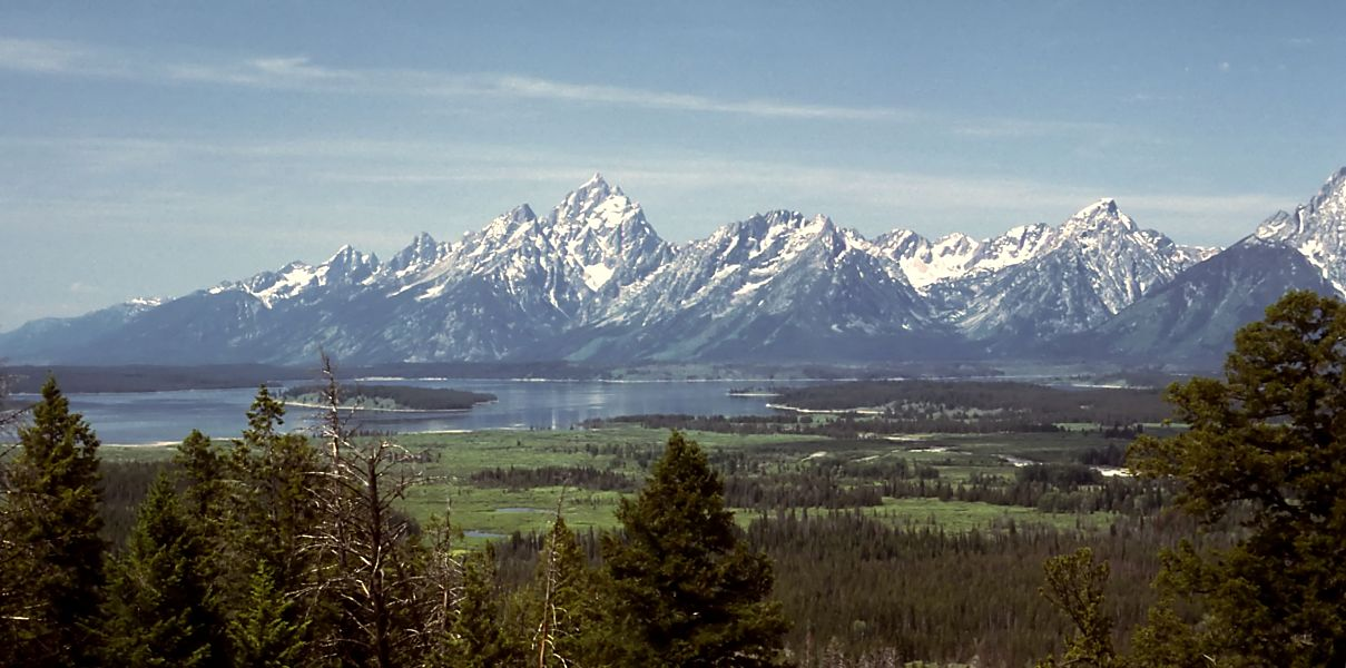 Teton Range, Wyoming, looking southwest from near Swan Lake. Visible in the near distance is Jackson Lake.